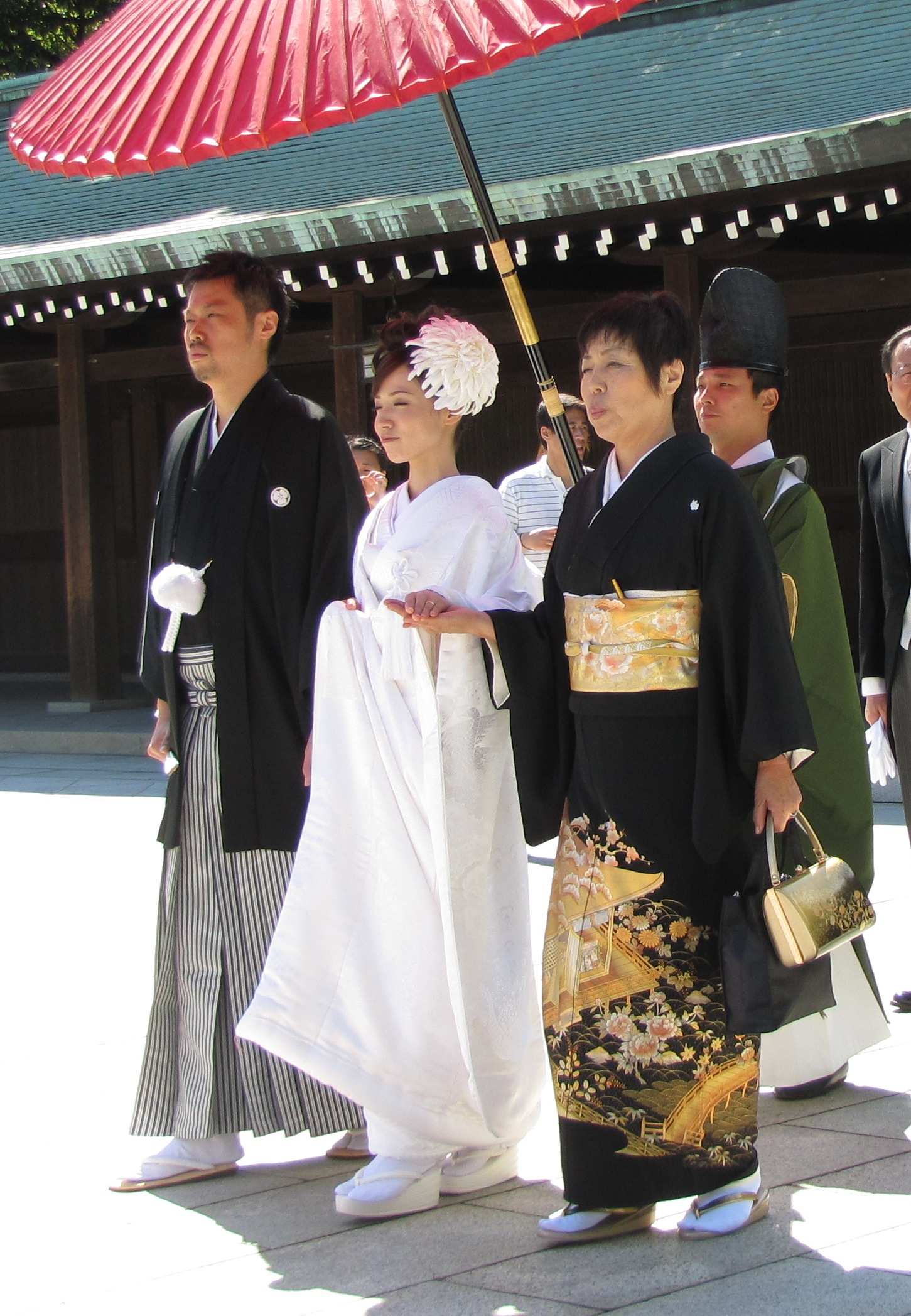 Japanese bride